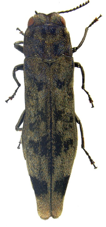 Agrilus umrongso Jendek 2013, holotype.